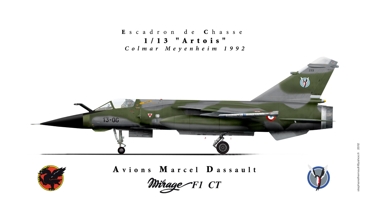 Mirage F1CT 1/13 artois sqdron French air frorce